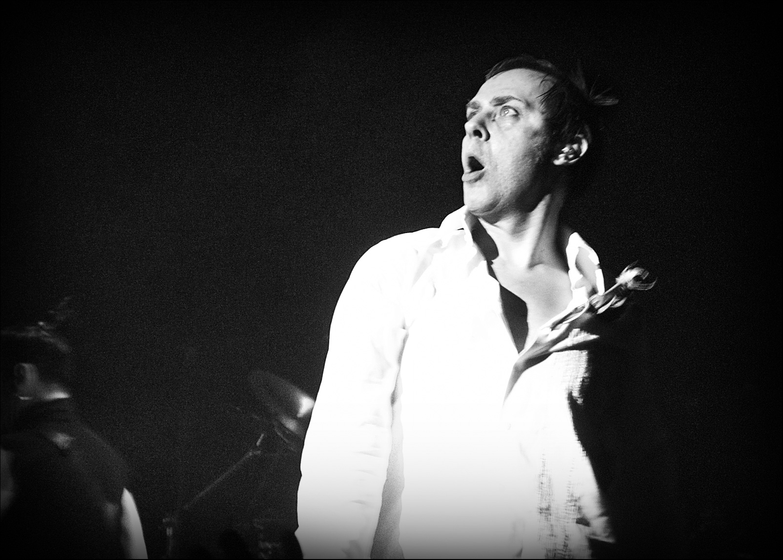 Vocalist Peter Murphy in concert with Bauhaus in London.